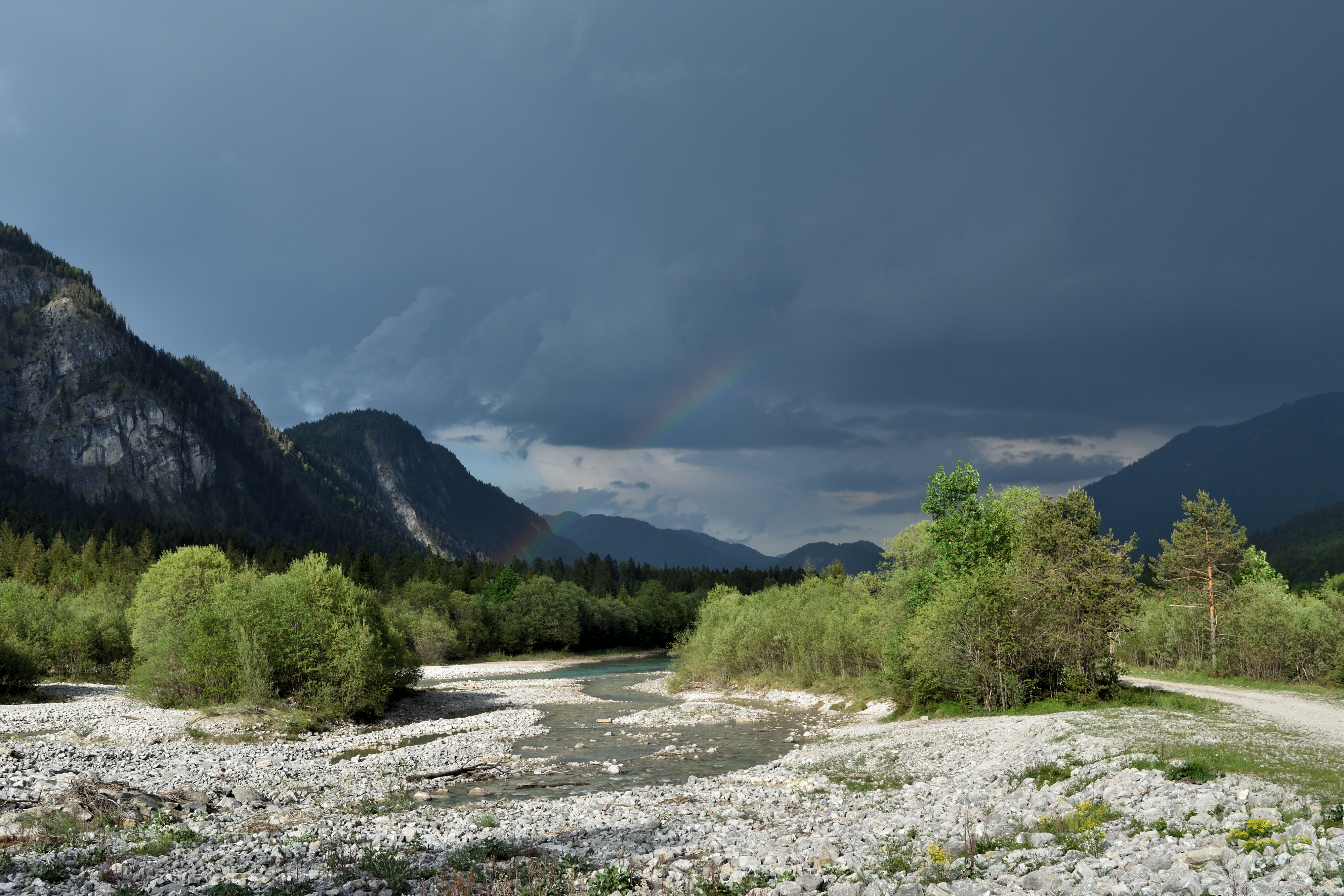 Isar river near check dam on the western side of Sylvensteinsee - May 2018 - Situated in Sylvensteinsee und oberes Isartal Protected Landscape